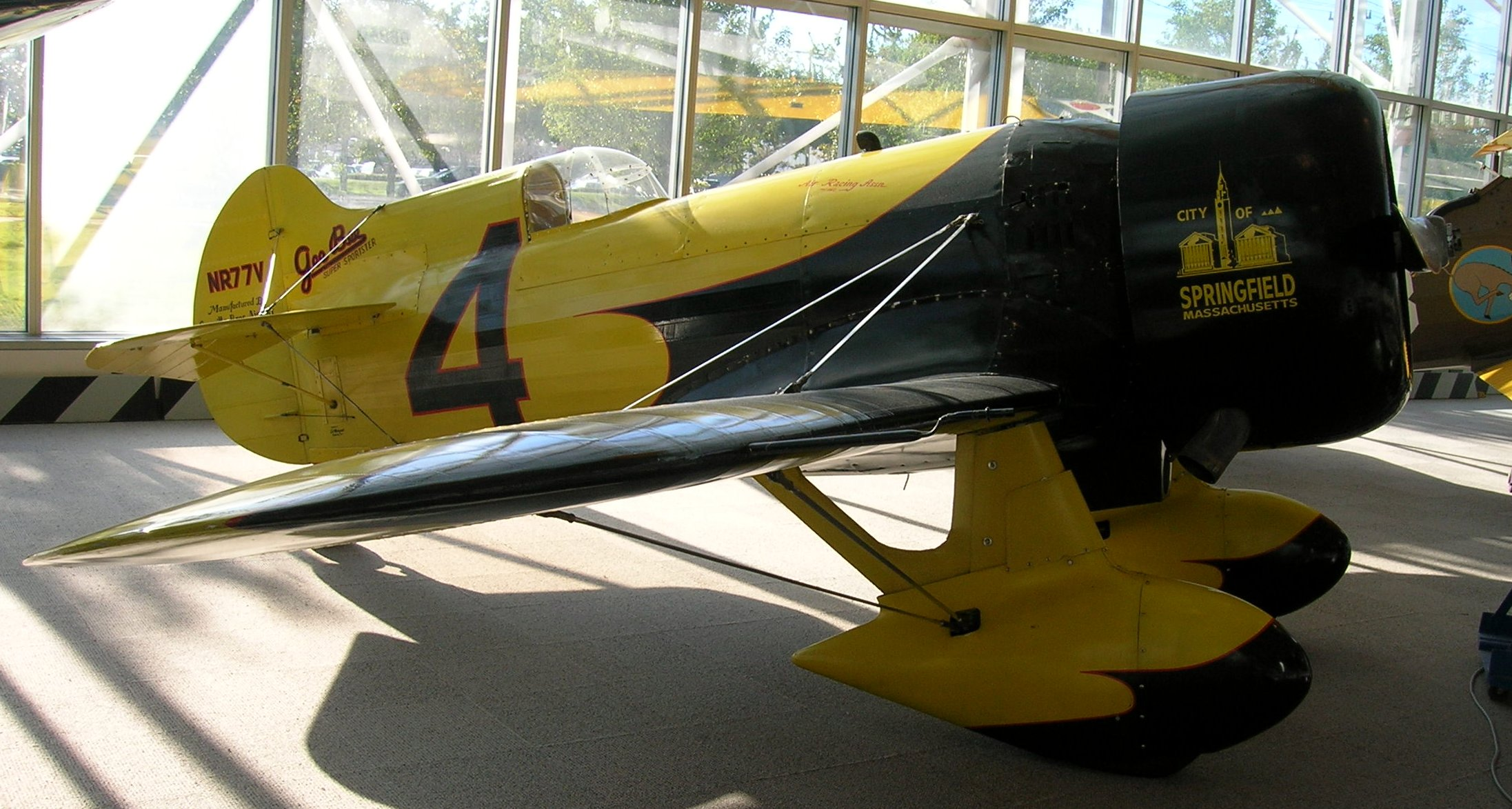 Reproduction of a GEE BEE Model Z Super Sportster